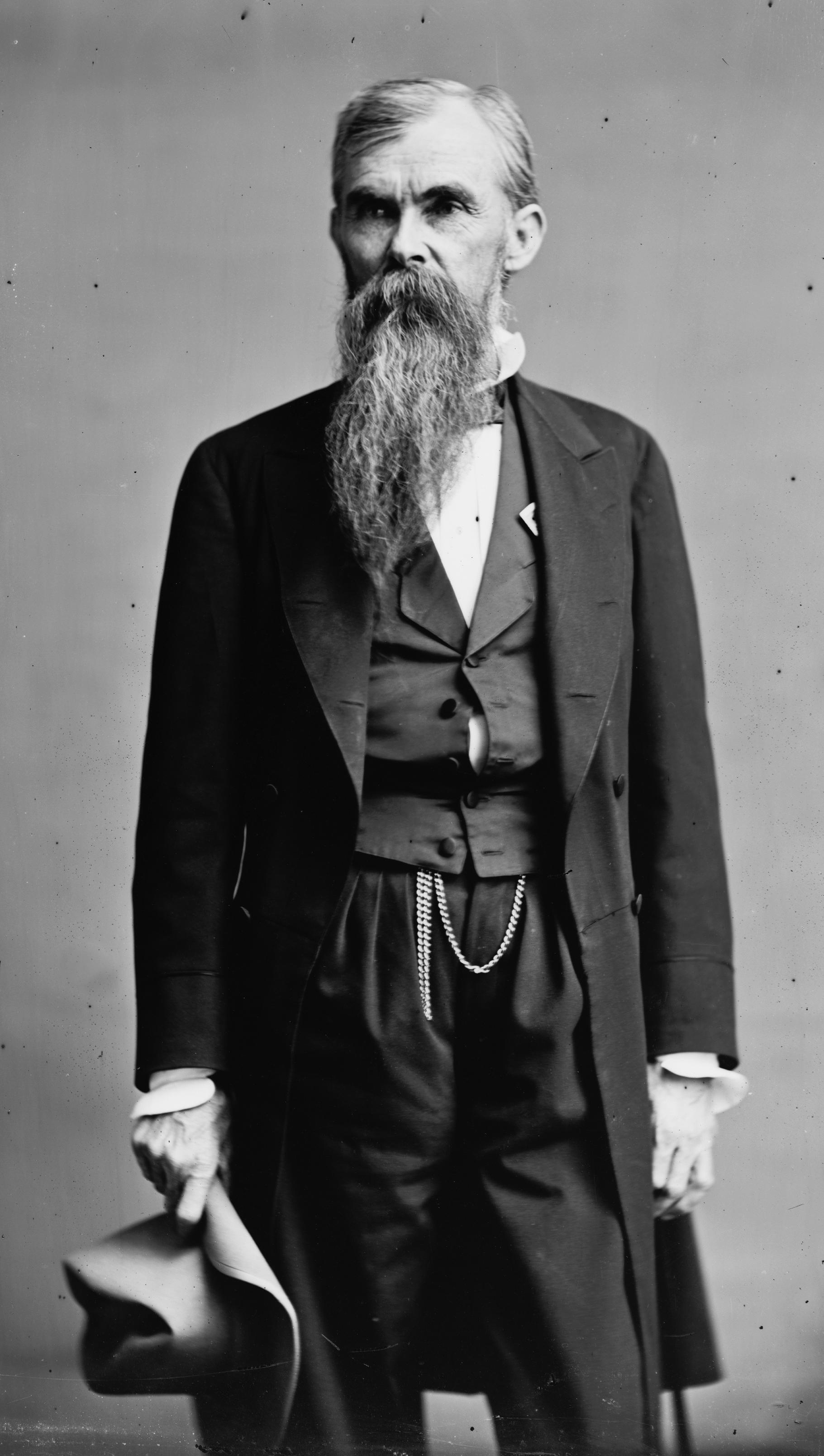 William Mahone. Library of Congress description: "Mahone, Hon. Wm. of Va. (General in Confederate Army)".